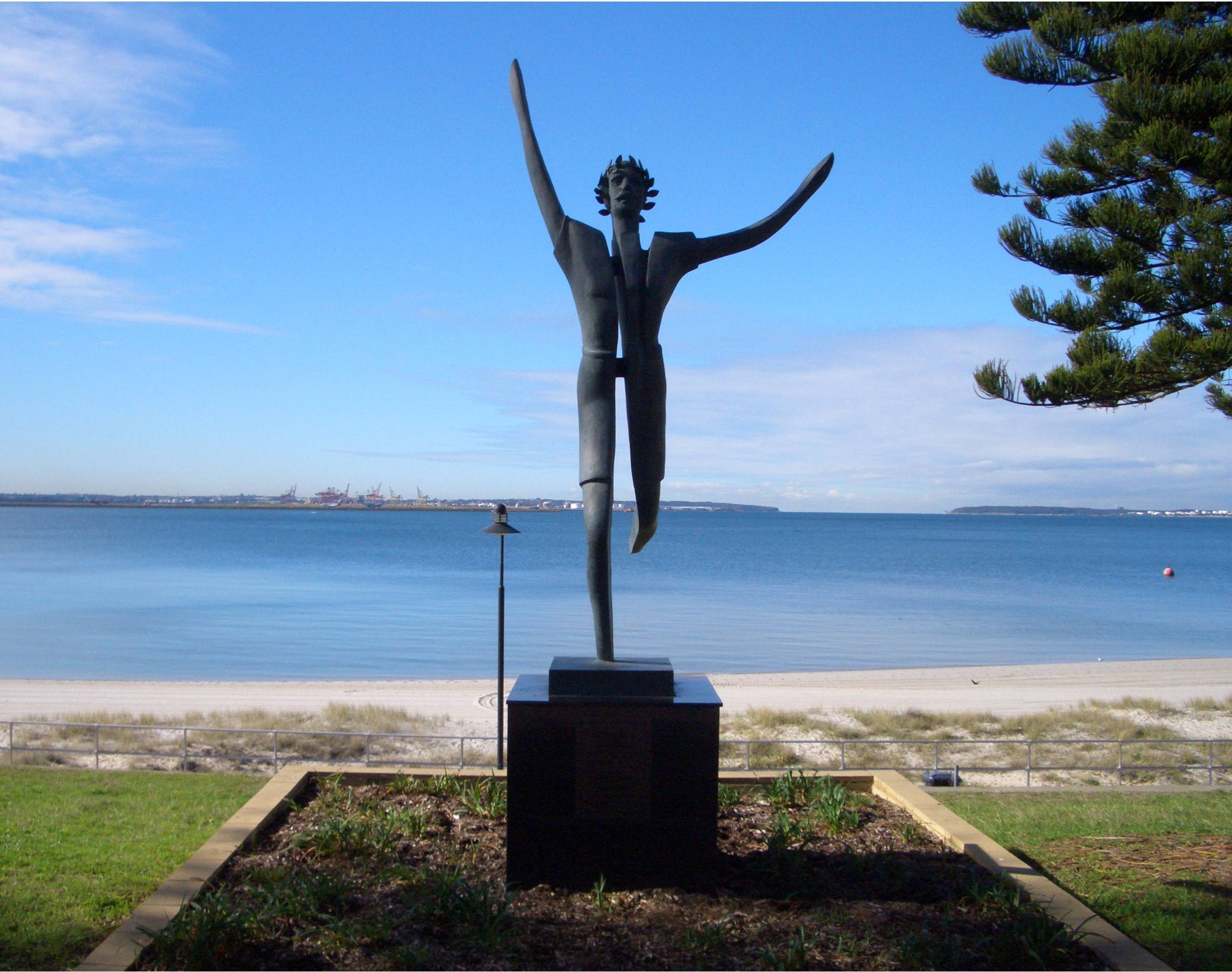 Olympic statue, The Grand Parade in Brighton-Le-Sands, Sydney, Australia.